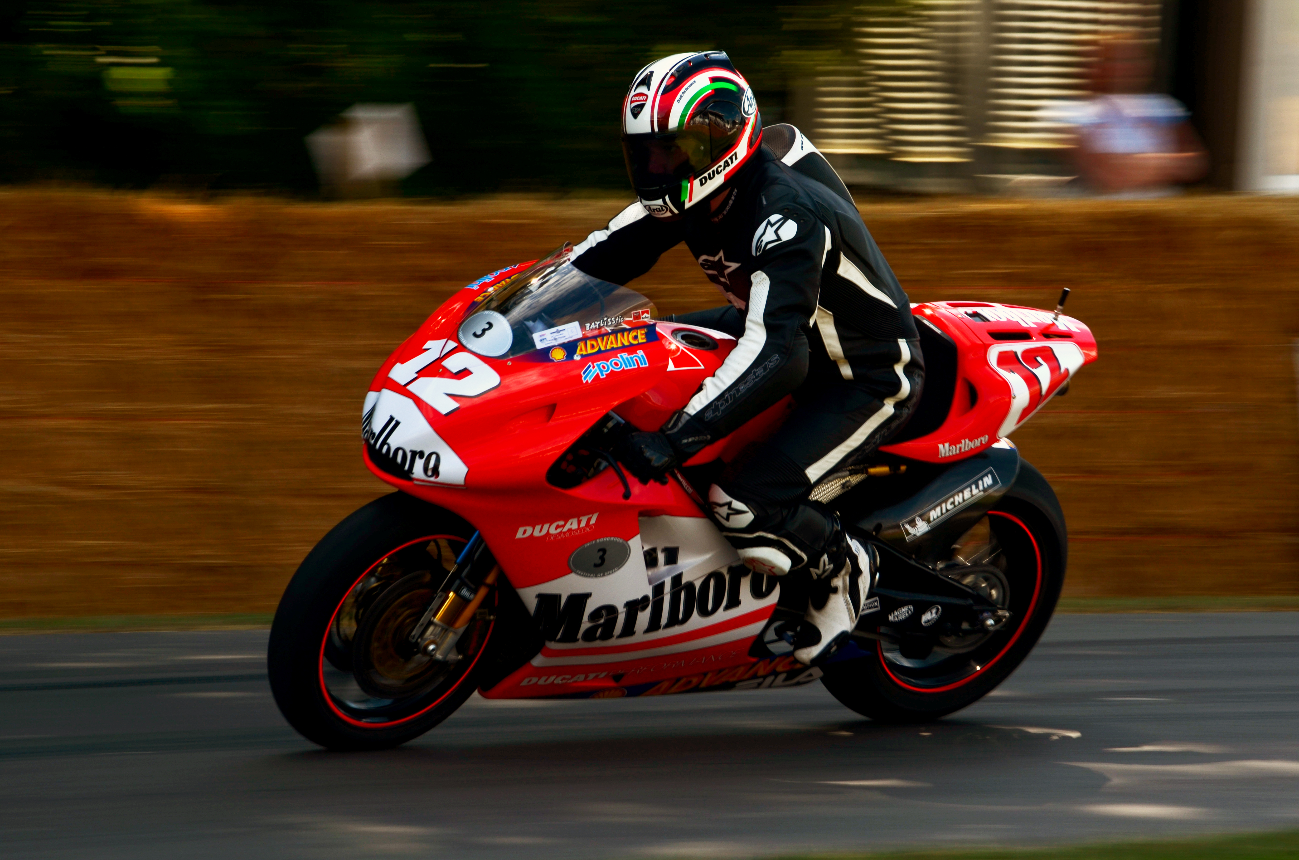 Chaz Davies races his motorcycle at the 2014 Goodwood Festival of Speed